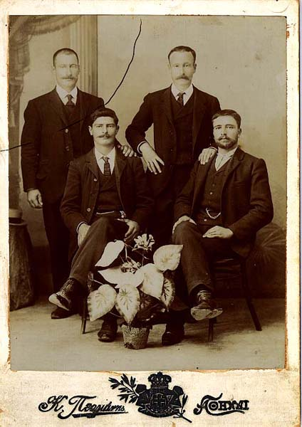 Lambrinos Vranas, Georgios Dikonimos, Georgios Peros